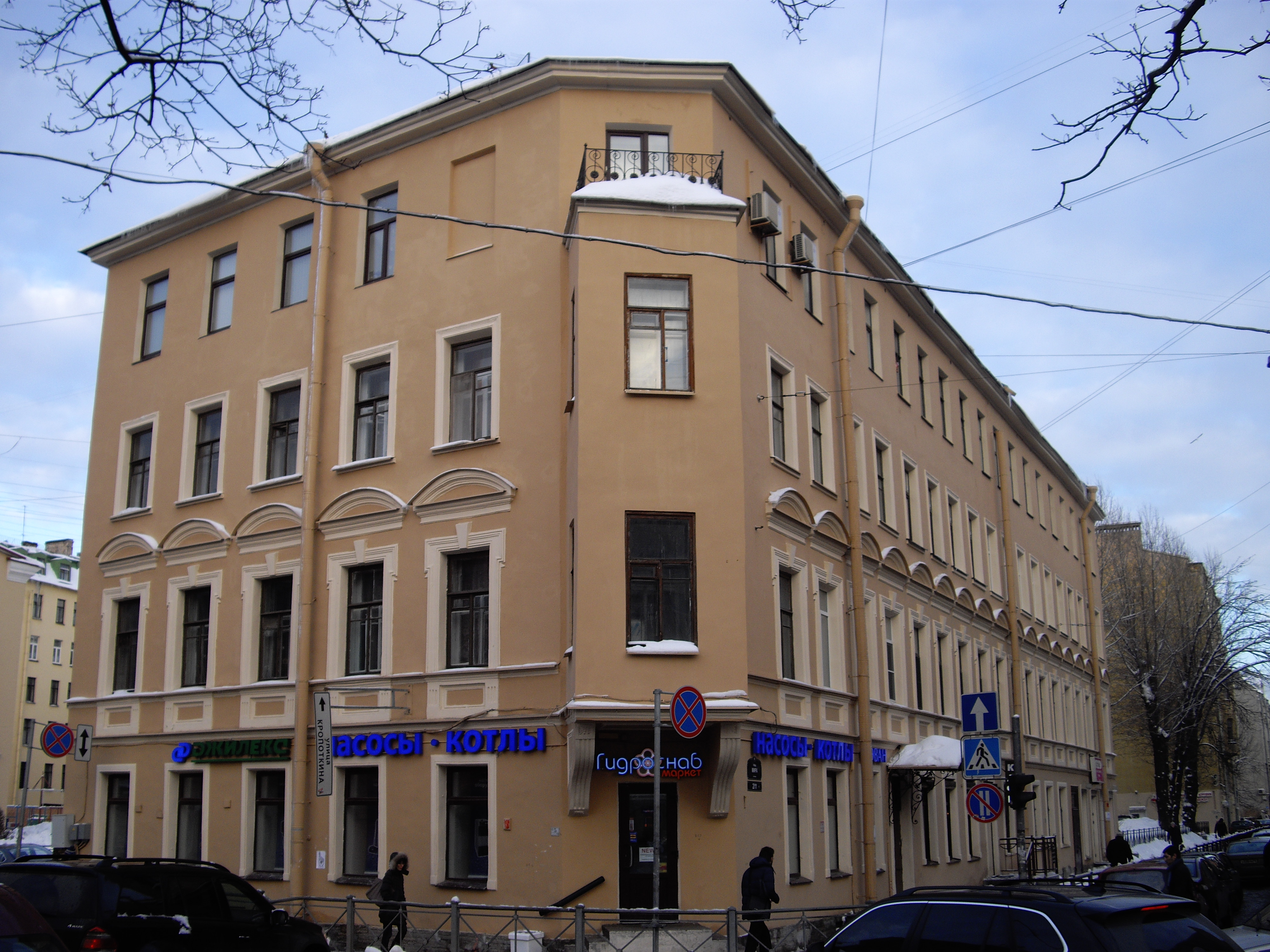 Kronverkskaya Street, corner of Mira Street (Saint Petersburg, Russia). Author K. I. Nikiforov, 1900.